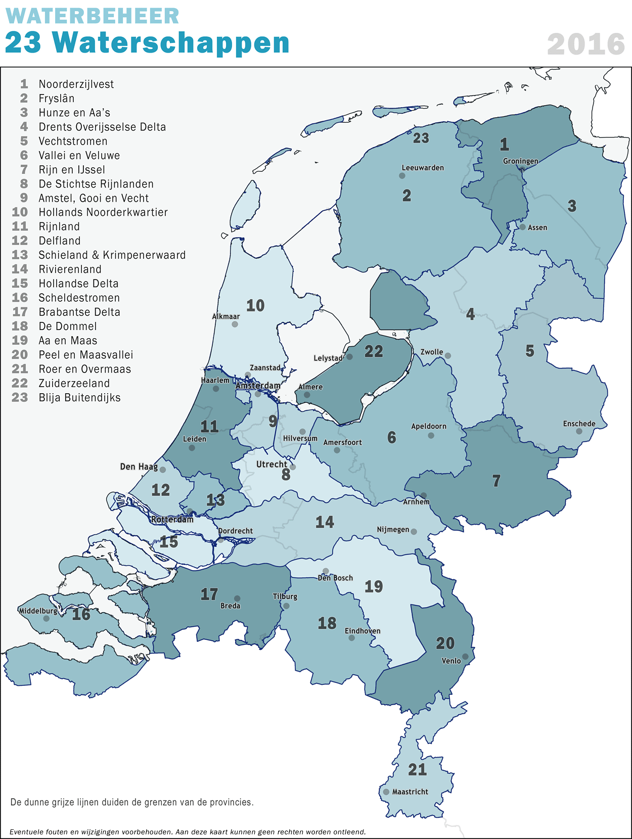 Overview map of the Duch Polder Boards as per 2016